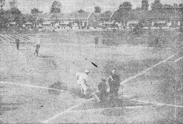 Baseball at the 1921 Korean National Sports Festival.